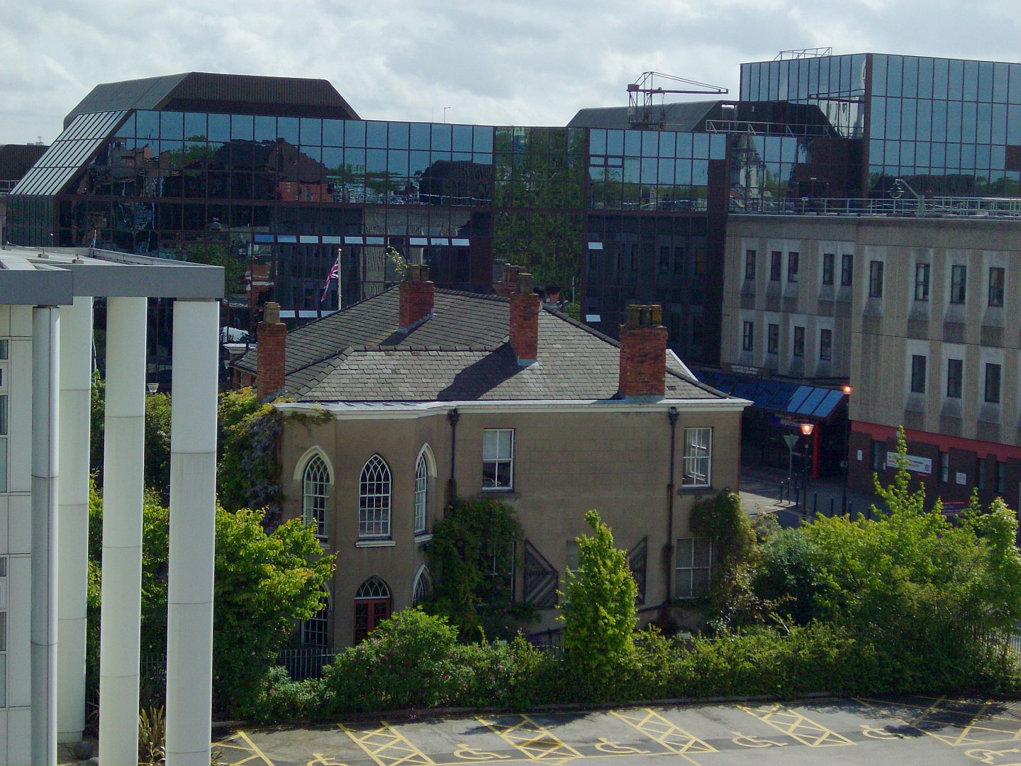 Pankhurst Centre in Nelson Street (off Grafton Street) in Manchester, UK seen from the Manchester Royal Infirmary car park